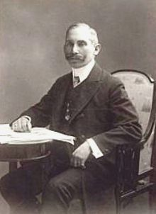 János Kotányi